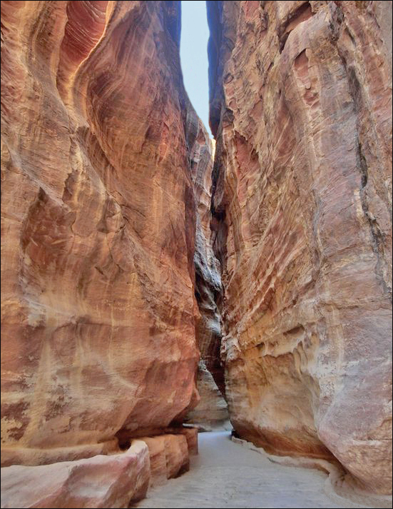 Petra. the Siq in his route south north.